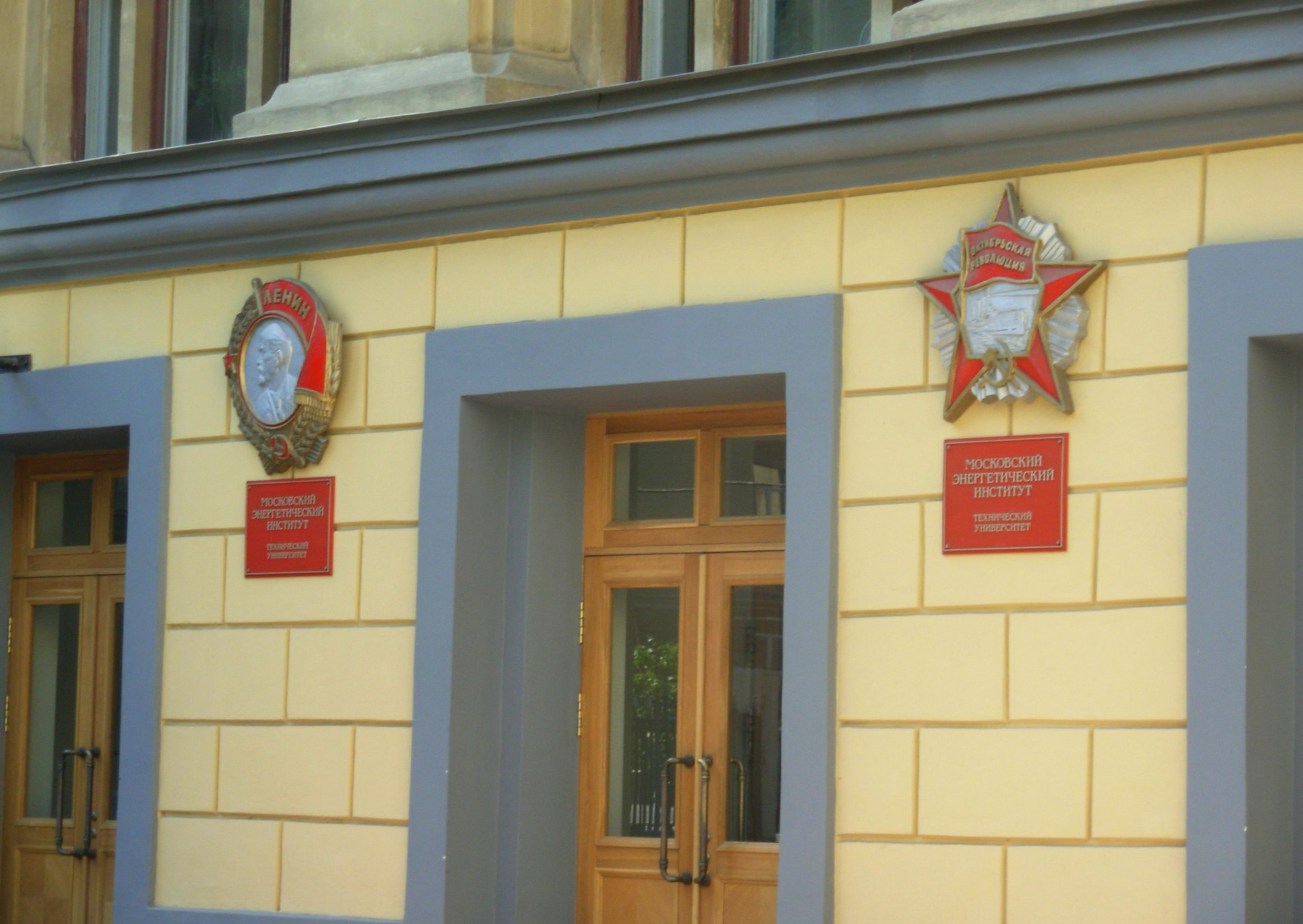 Moscow Power Engineering Institute Russia